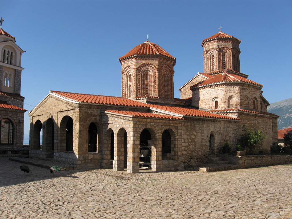 St. Naum Monastery- Macedonia